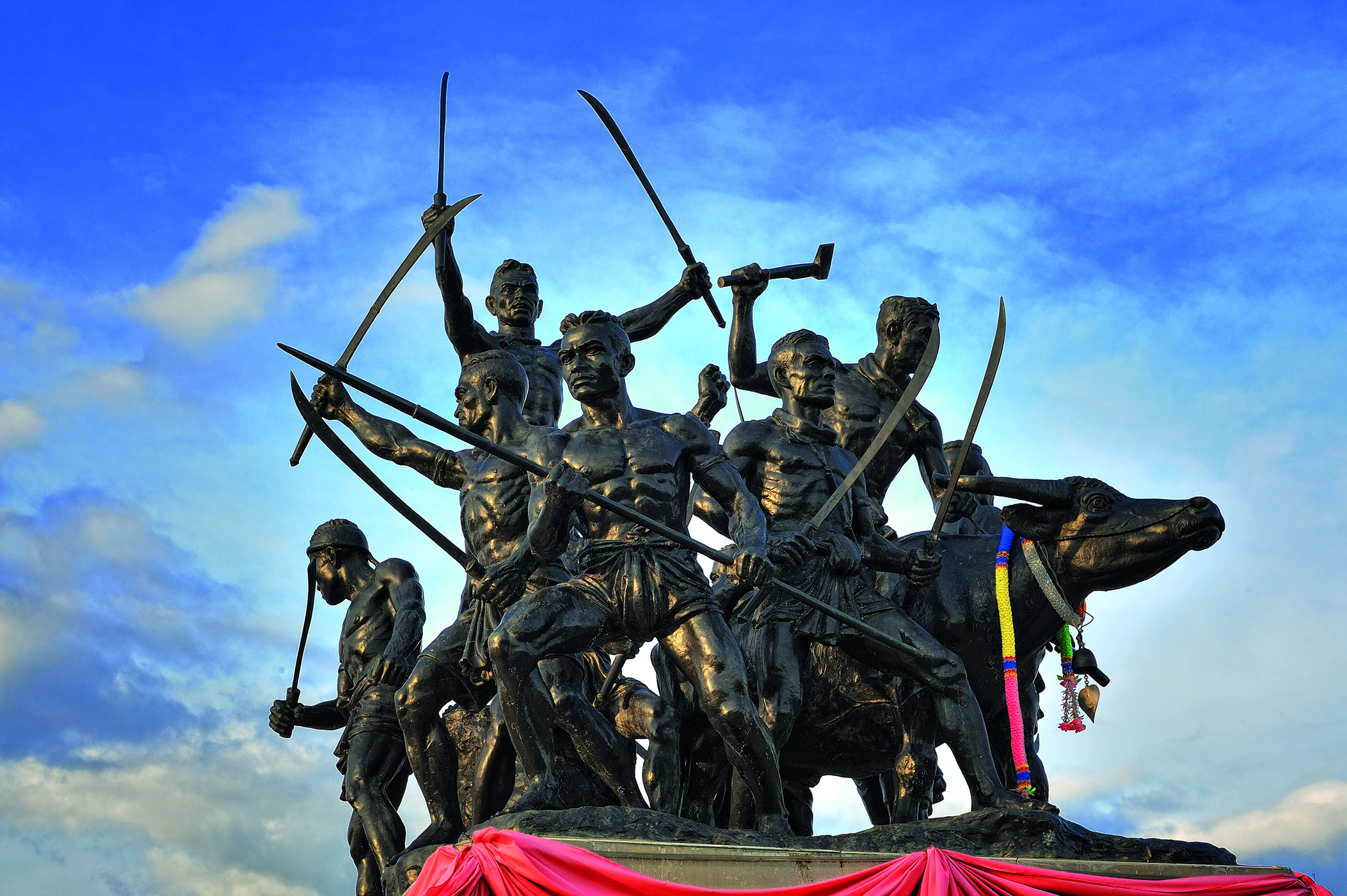 The memorial park is approximately 15 kilometres away from the downtown district on 3032 Highway. Covering 115 rais, the park features a botanical garden (arboretum) and the Monument of Bang Rachan Heroes, a cast sculpture of 11 village leaders which are Mr.Tan, Mr.Chote, Mr.In, Mr.Muang, Mr.Dok, Mr.Thong Kaew, Mr.Chan Nuartkaew, Khun Sun, colonel Ruang, Mr.Thong Men and Mr.Thong Sangyai. It was created by the Department of Fine Arts in 2499 BC in commemoration of the villagers who made the ultimate sacrifice in a bid to defend the motherland. The fighting of the villagers, delayed the Myanmar army for going to Ayuttha which helped the King’s army to have more time to prepare for the fight. The Bang Rachan Historical Study Centre stages exhibitions in separate rooms, depicting stories of Bang Rachan camp, the province’s heritages, and ways of living of the locals and well-known products. In the 4-6 of February in every year there is a memorial day for these sacrifice villagers.